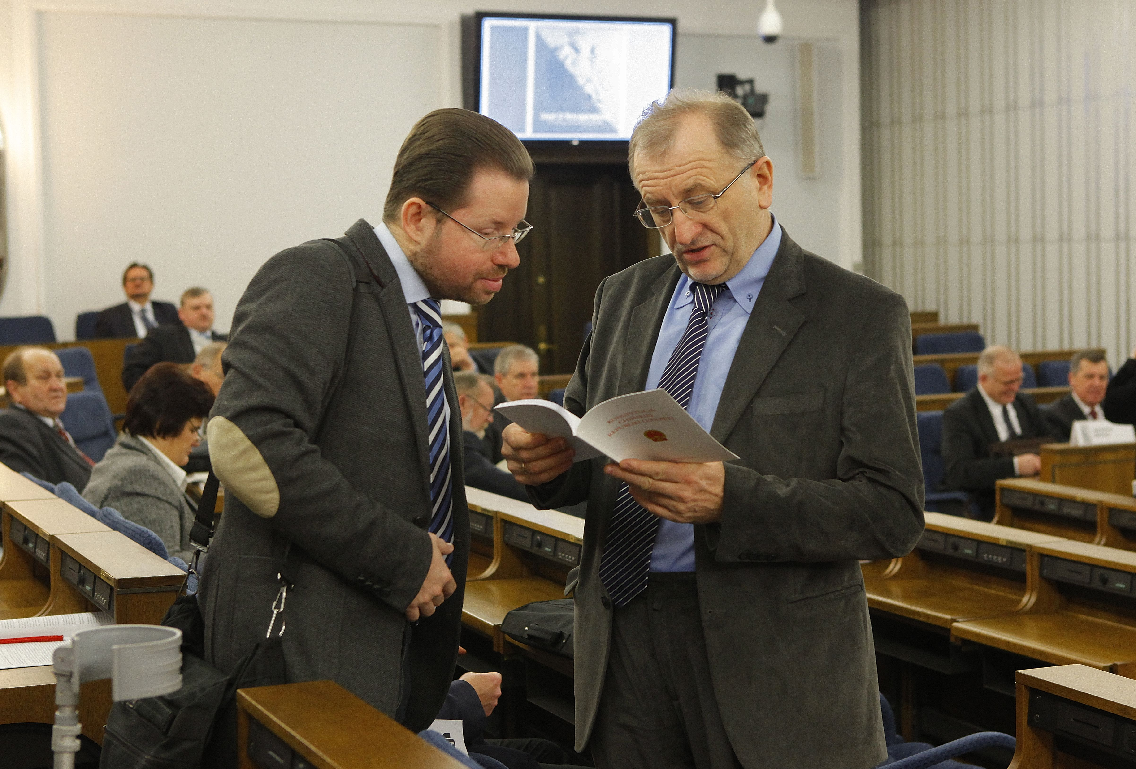 Professor Jarosław Szymanek (left) at the conference "Senate in the tradition and consitutional practice of the Republic of Poland" in the Polish Senate